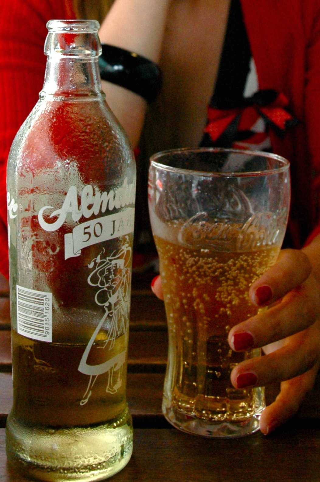 Almdudler in a bottle and in a glass.